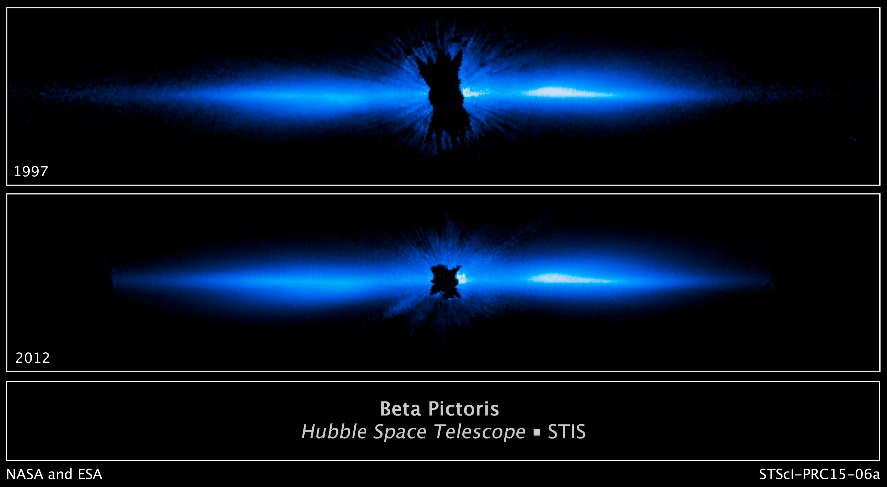 This is the most detailed picture to date of a large, edge-on, gas-and-dust disc encircling the 20 million year old star Beta Pictoris. It is compared with a previous image of the disc. Beta Pictoris remains the only directly imaged debris disc that has a giant planet (discovered in 2009) with an orbital period short enough (estimated to be between 18 and 22 years) that astronomers can see large motion in just a few years. This allows scientists to study how the Beta Pictoris disc is distorted by the presence of a massive planet embedded within the disc. The new visible-light Hubble image traces the disc to within about one billion kilometres of the star (which is inside the radius of Saturn's orbit about the Sun). Links: NASA Press release New view of Beta Pictoris